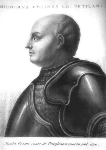 Niccolò di Pitigliano